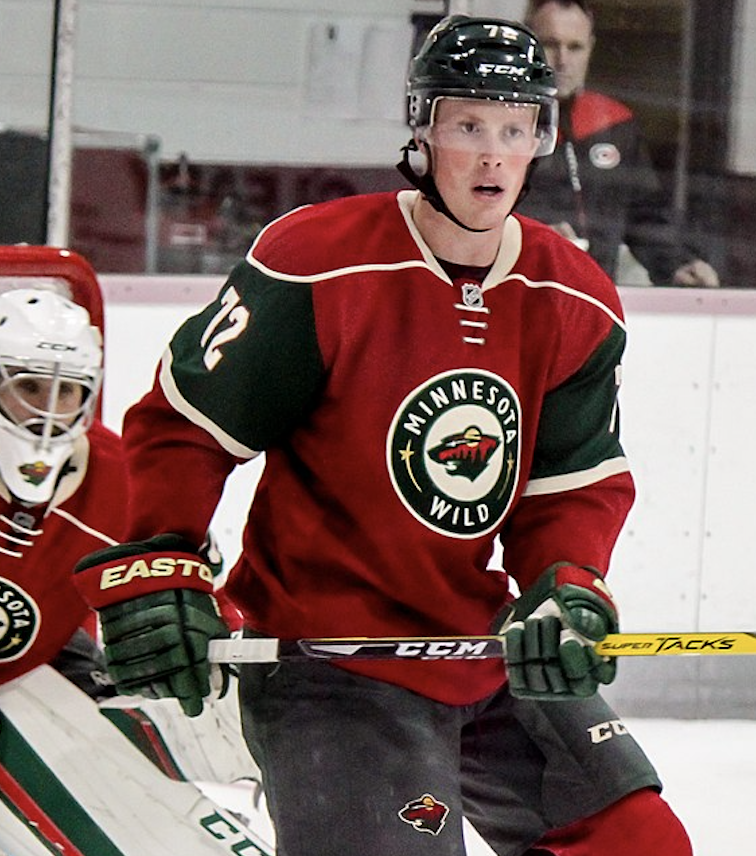 Nick Seeler closeup